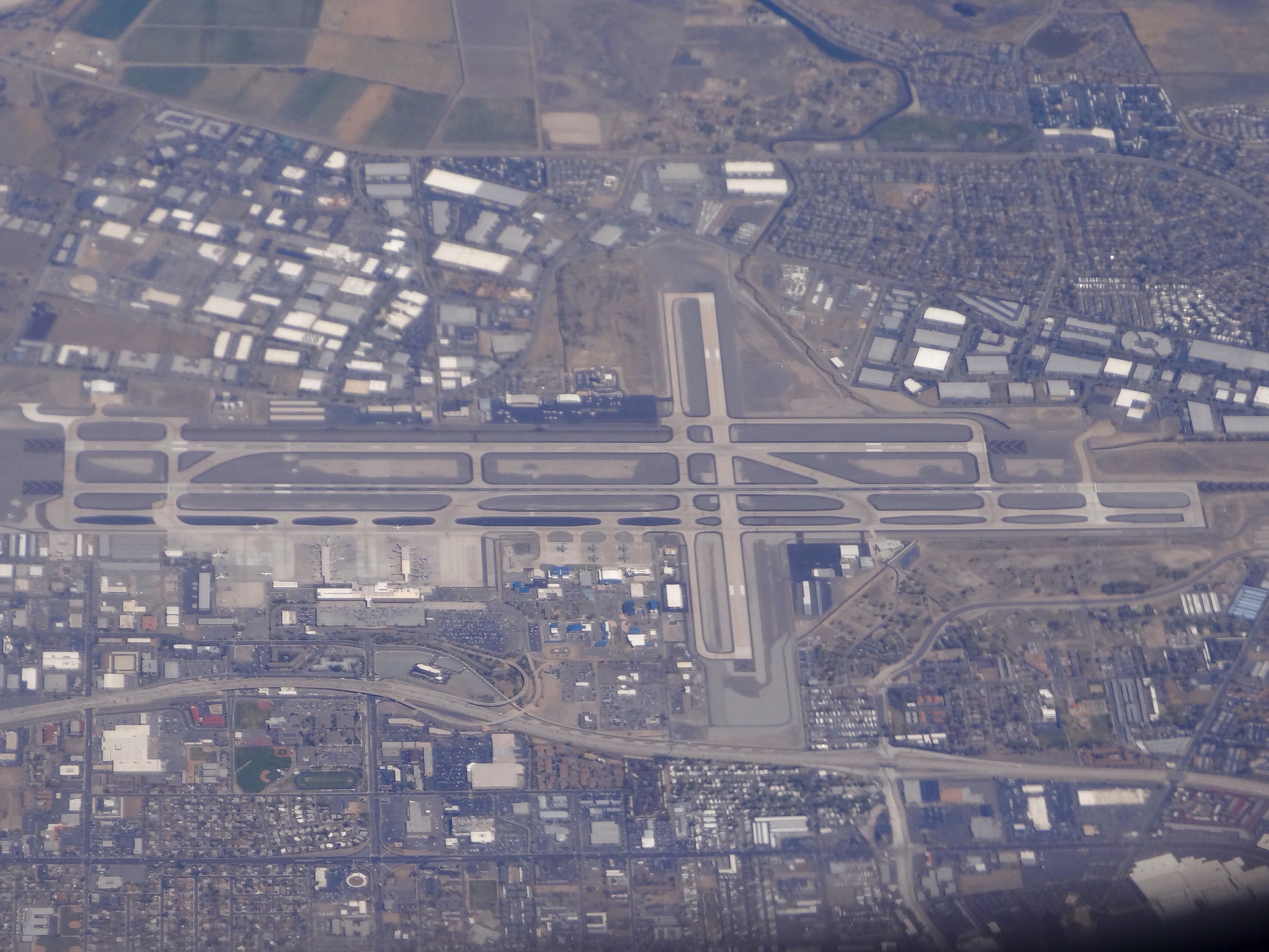 Aerial view of Reno Airport, Nevada